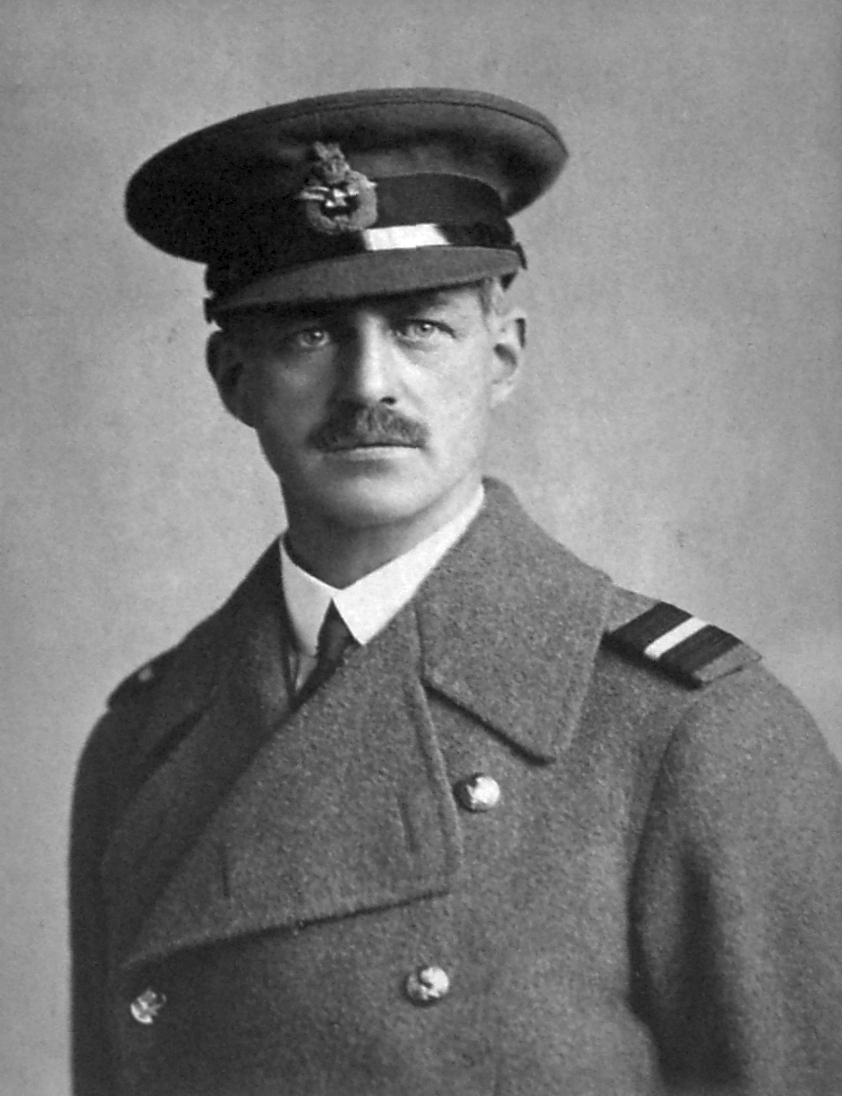 Air Commodore Ian Bonham-Carter. This image is a digital reproduction of an original photograph which was taken between 1 Jul 1925 and 31 Dec 1953. It was probably taken around 1930. The uploader digitized the photograph.